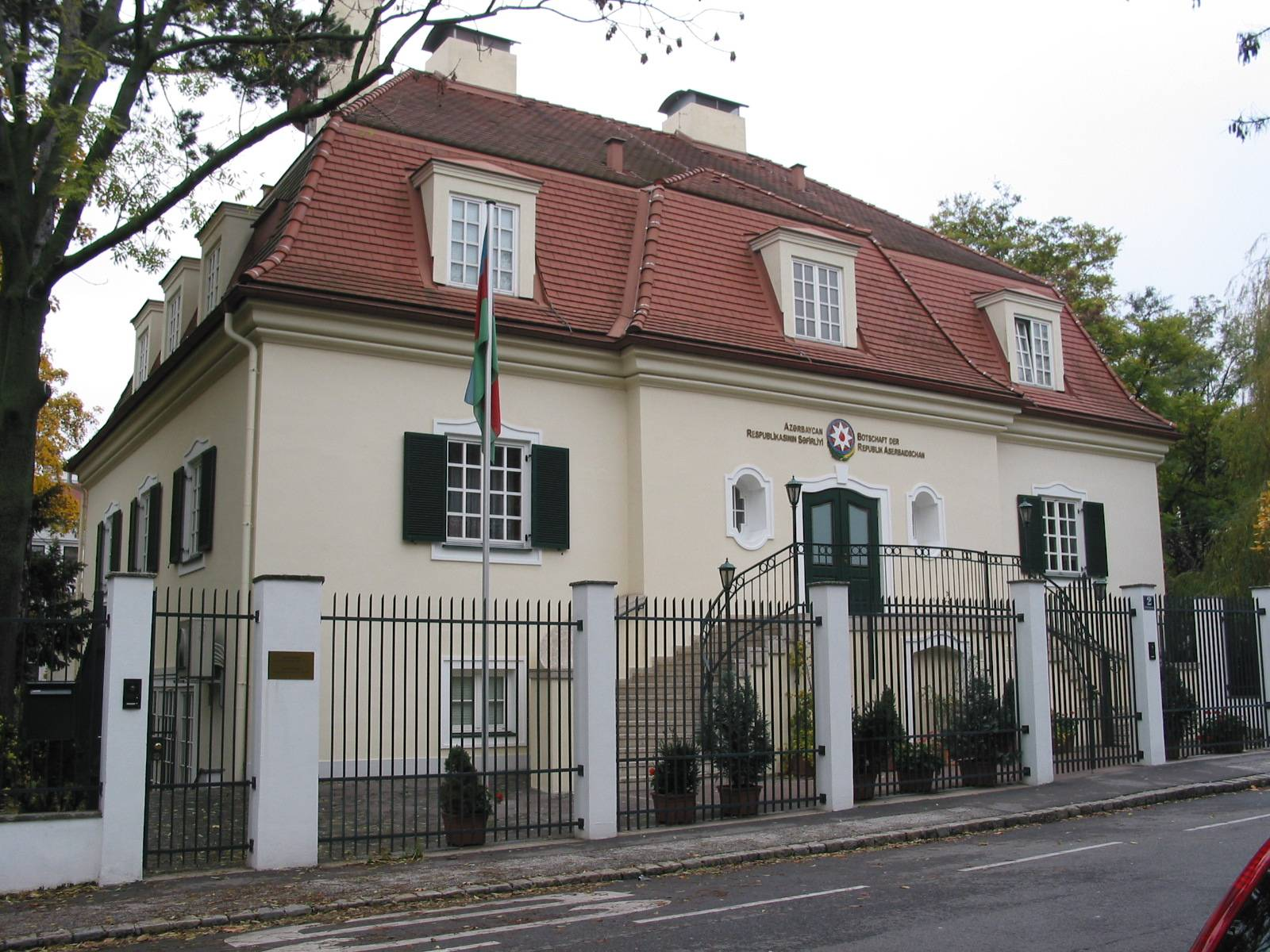 Villa von Hans Moser, heute asebaidschanische Botschaft en: Mansion of Hans Moser, today embassy of Azerbaijan